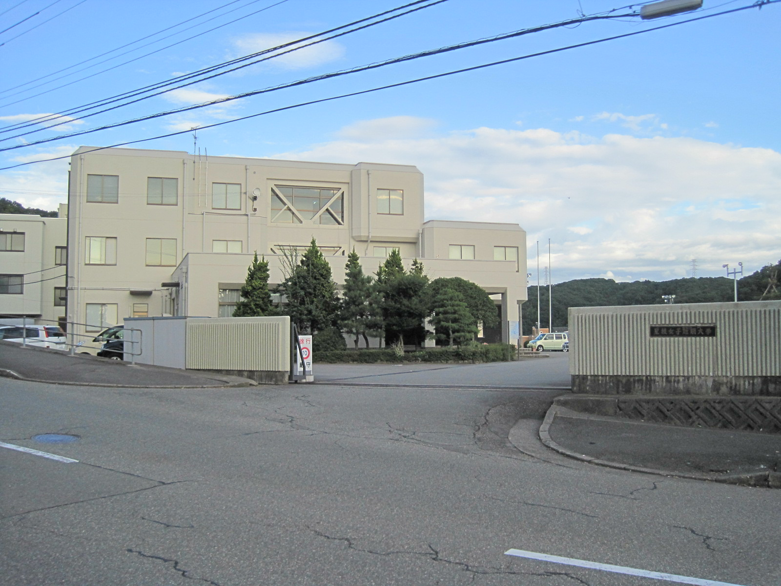 Seiryo Women's Junior College(Kanazawa city, Ishikawa prefecture)